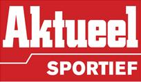 The logo of Dutch magazine Aktueel Sportief.